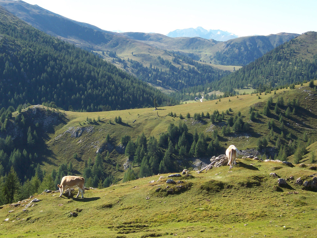 "Nockalmstrasse" in Carinthia, Austria.